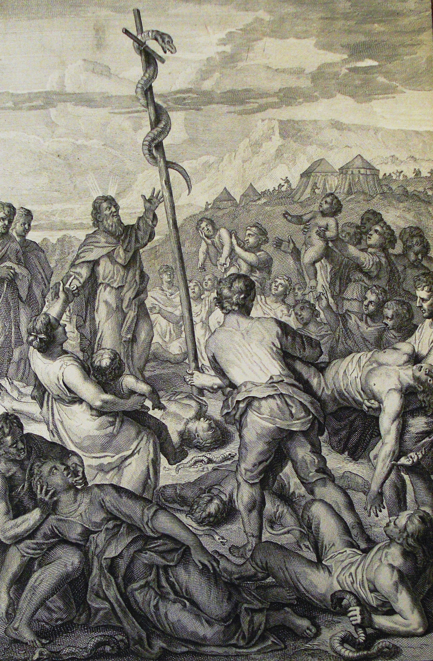 A print from the Phillip Medhurst Collection of Bible illustrations in the possession of Revd. Philip De Vere at St. George’s Court, Kidderminster, England.